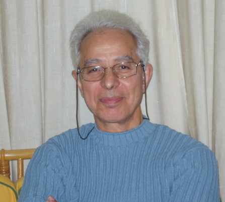 Cyprian poet Kyriakos Charalambides